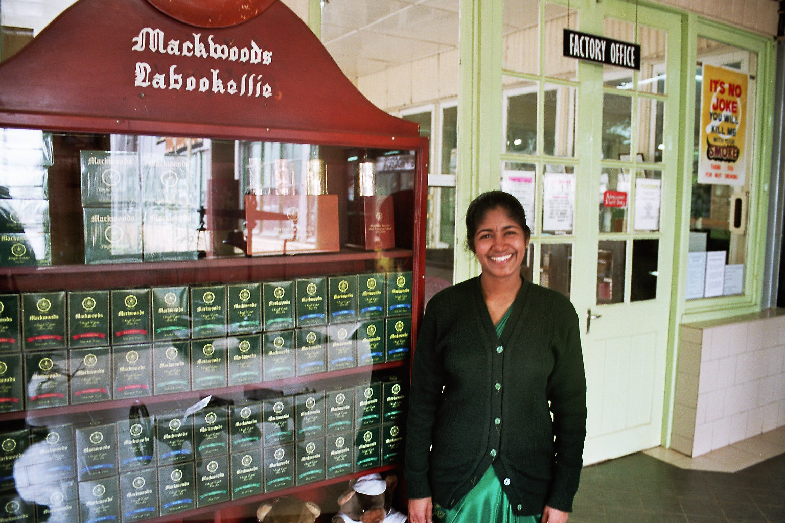 The Mackwoods Tea Factory in Sri Lanka